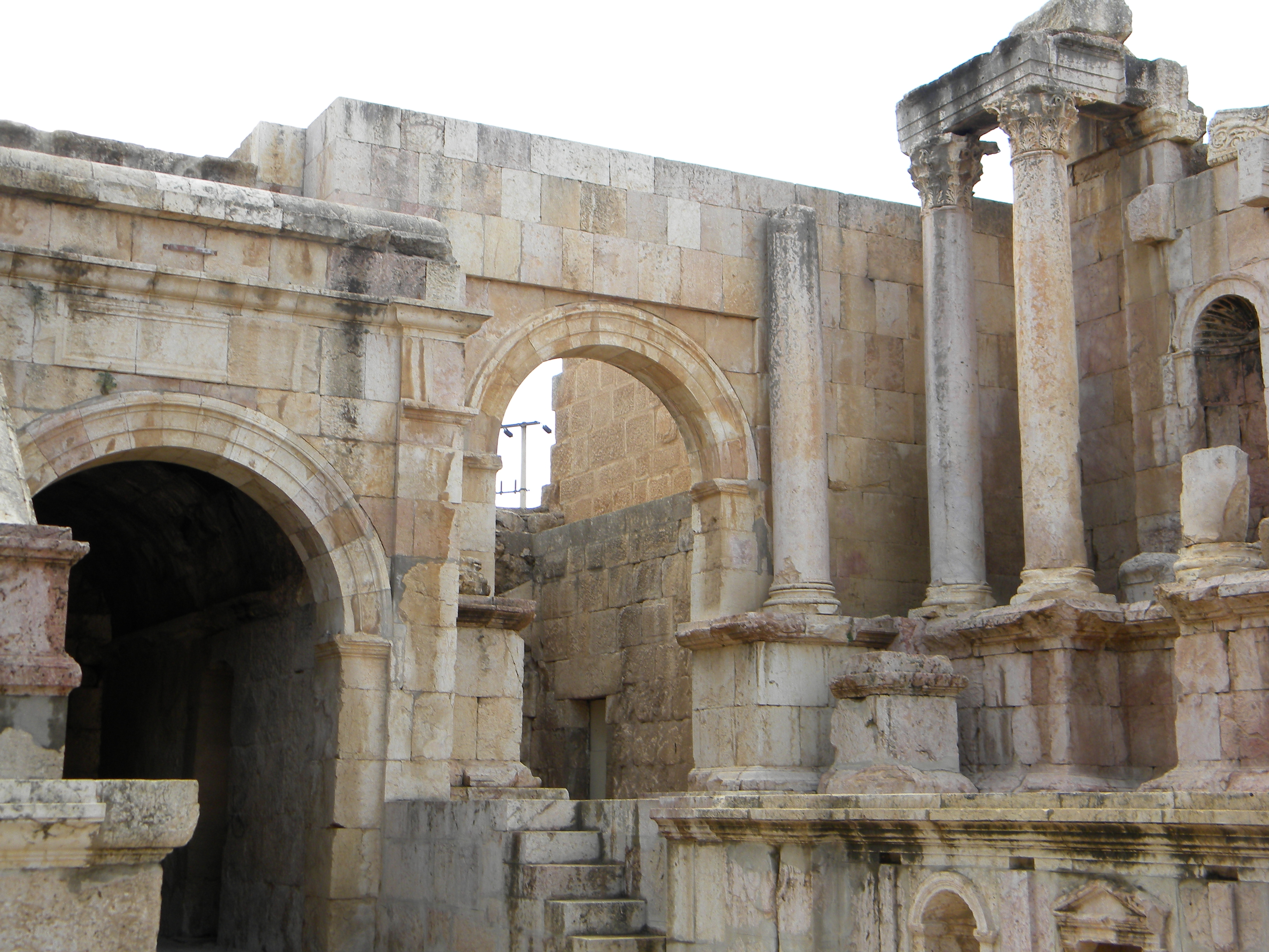 The larger of Jerash's two theaters, the southern theater, was built on the north-west slopes of the hill occupied by the Temple of Zeus. Construction of the building began in the reign of Domitian (A.D. 81-96).